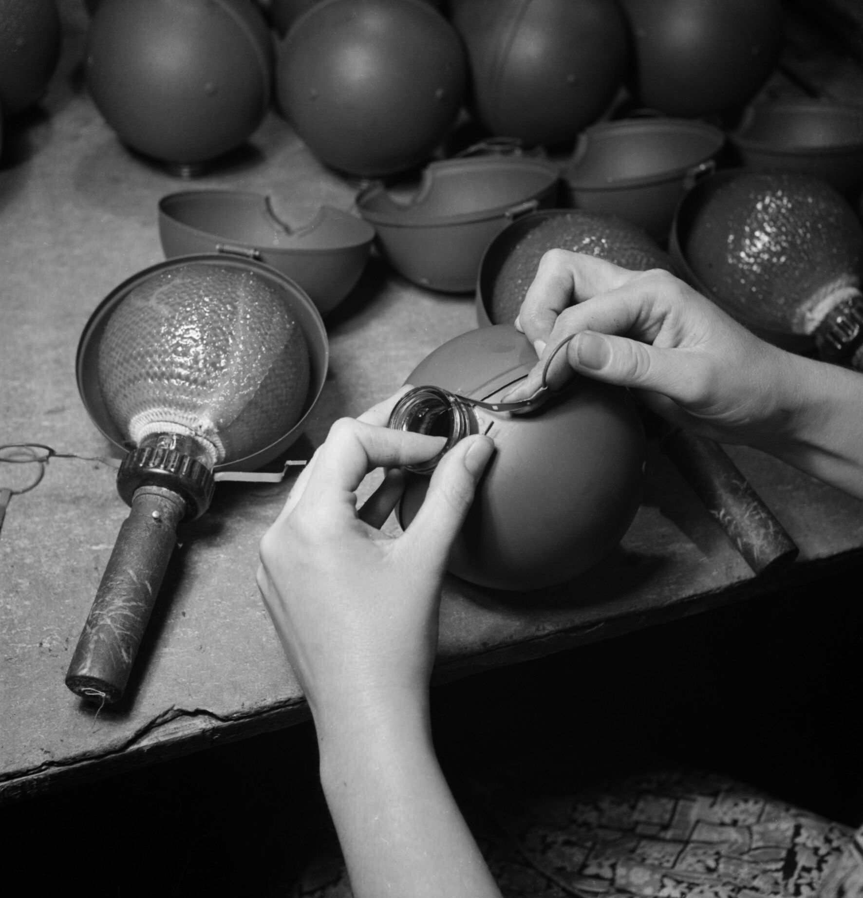 A close-up view showing the protective casing being clipped into place around the glass flask of a sticky bomb at a workshop, somewhere in Britain. The casing is held in place by a narrow metal band around the neck of the flask. Once this clip is released, the two halves of the casing fall away, exposing the adhesive surface of the bomb.